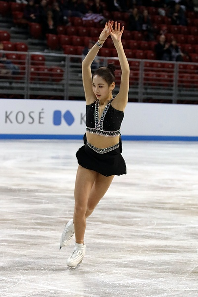 Photos – Junior World Championships 2018 – Ladies (Eunsoo LIM KOR – 5th Place)